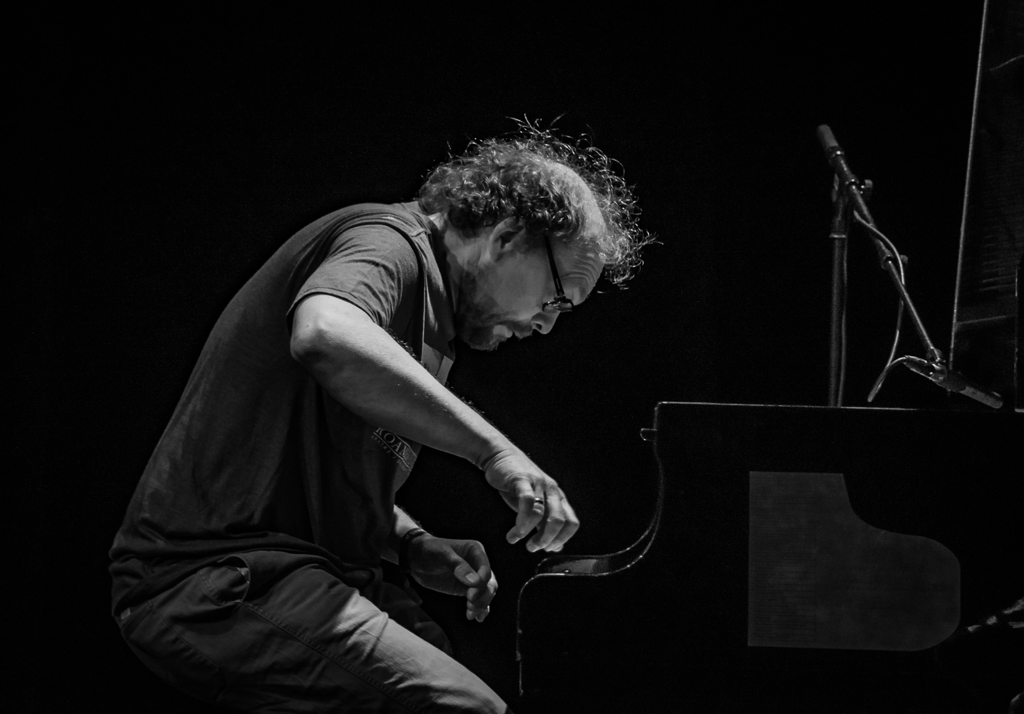 Bugge Wesseltoft performing at the Canal Street music festival, Arendal Norway, July 2015.